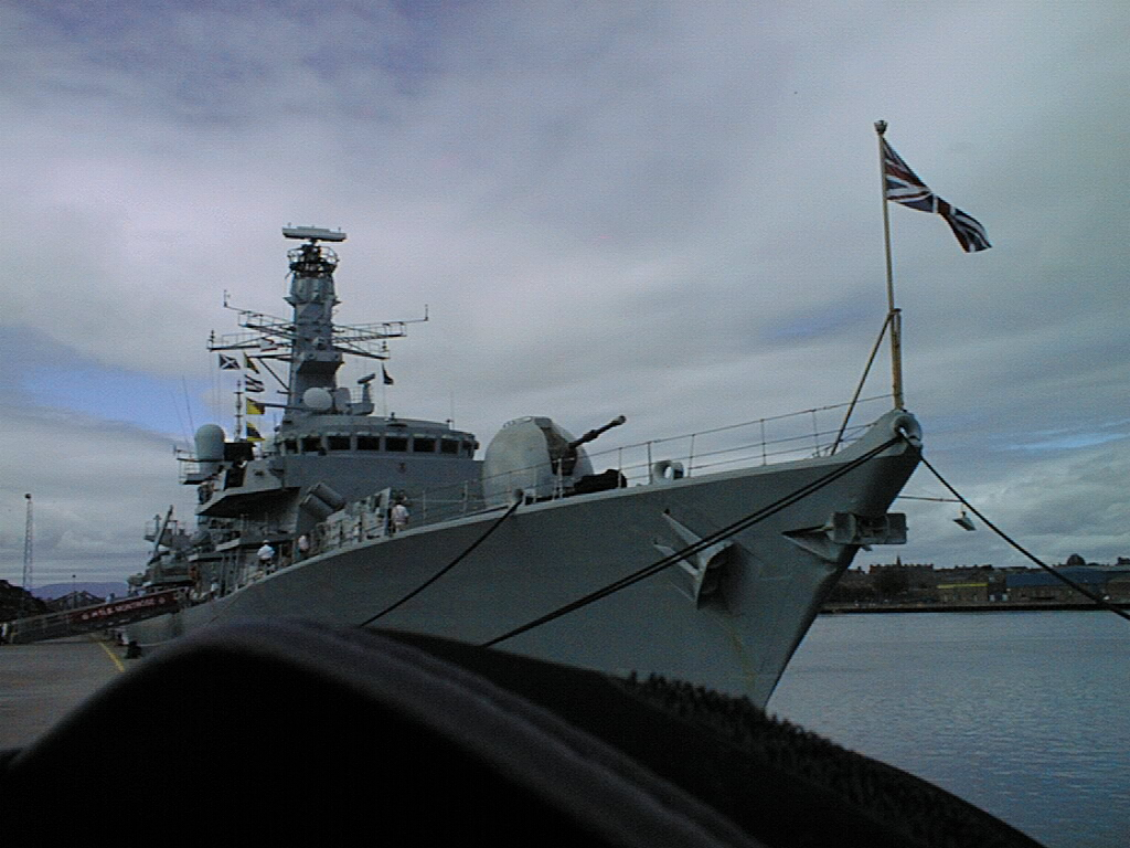 This is a picture of HMS Montrose when she came to visit the town of Montrose in Scotland